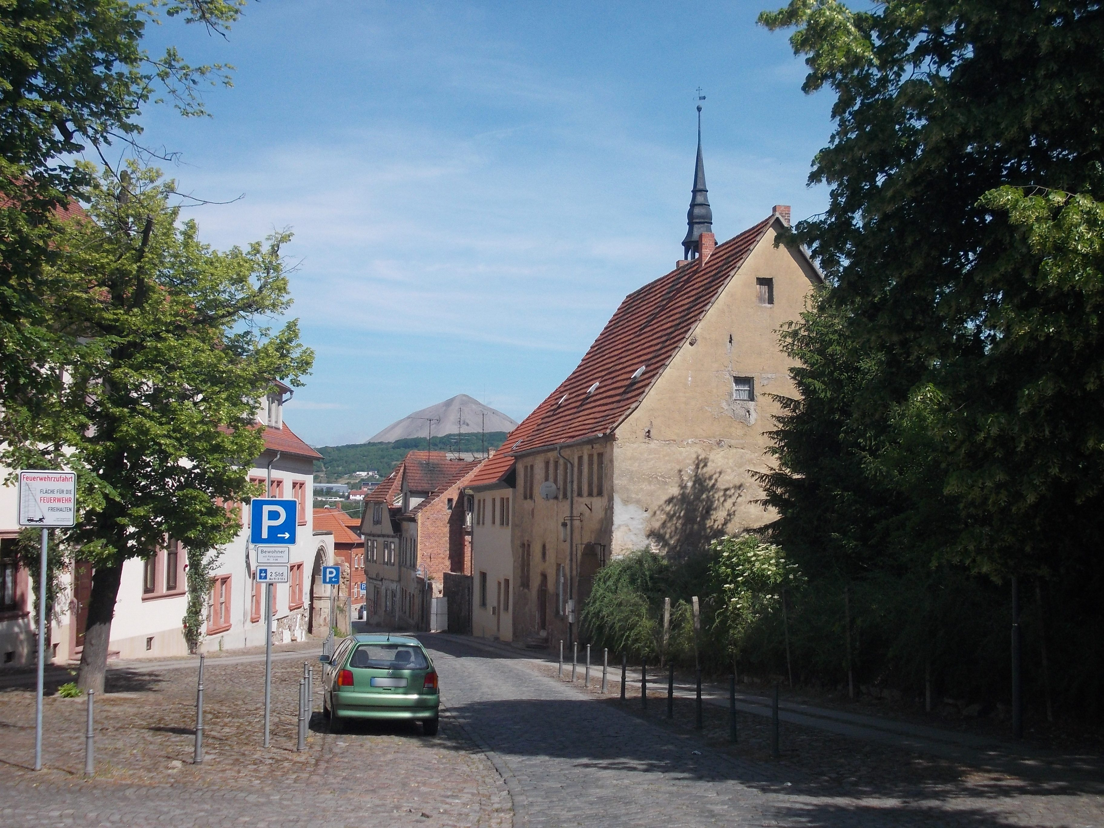 An der Trillerei street in Sangerhausen (Mansfeld-Südharz district, Saxony-anhalt), with Hohe Linde slagheap in the background